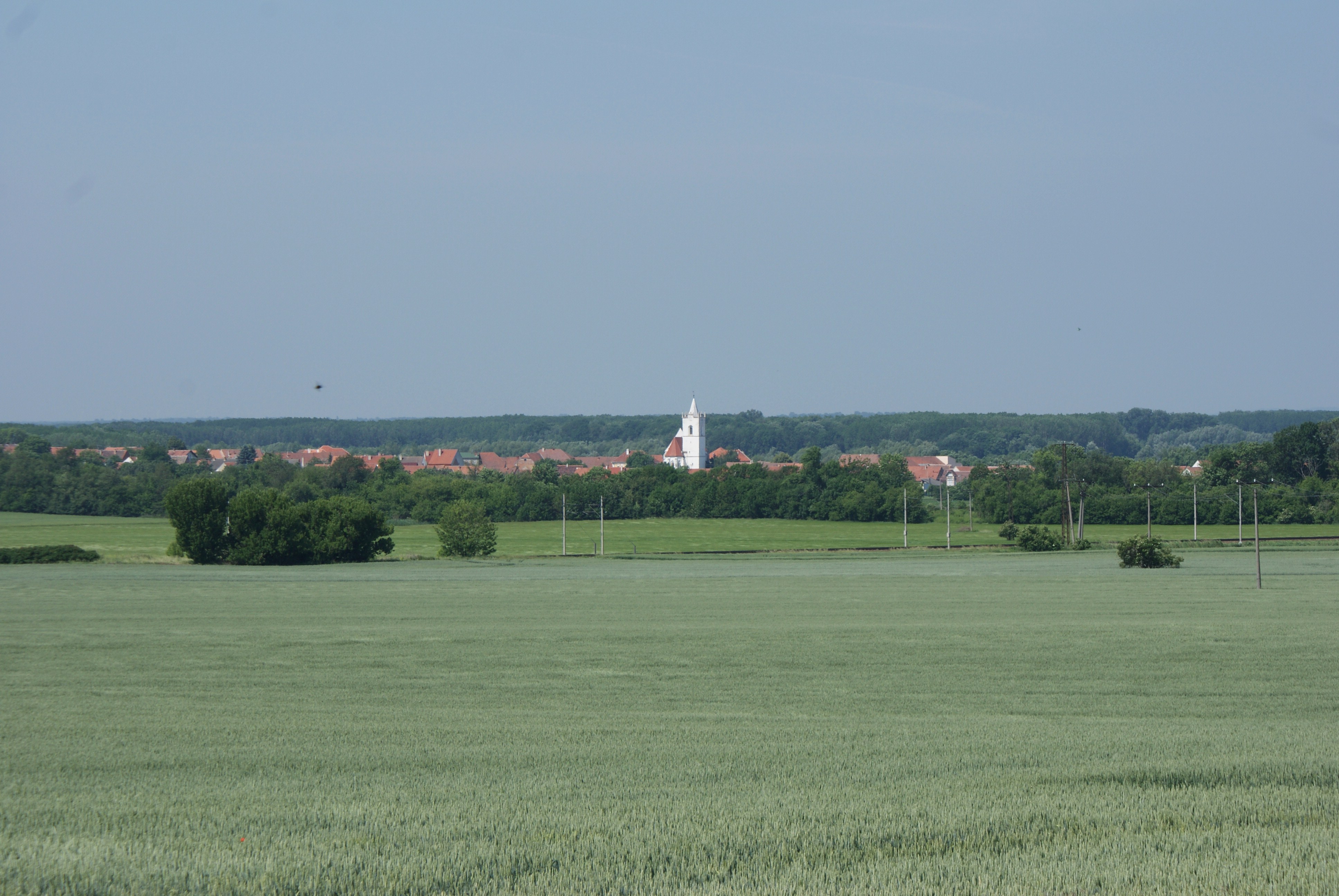 Pouzdřany, a village in Břeclav District, Czech Republic, general view.